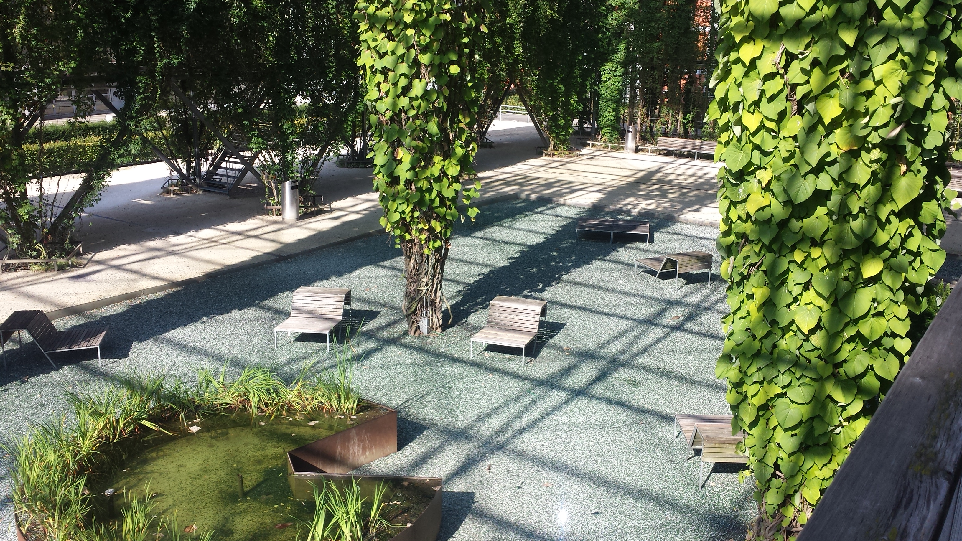 MFO Park